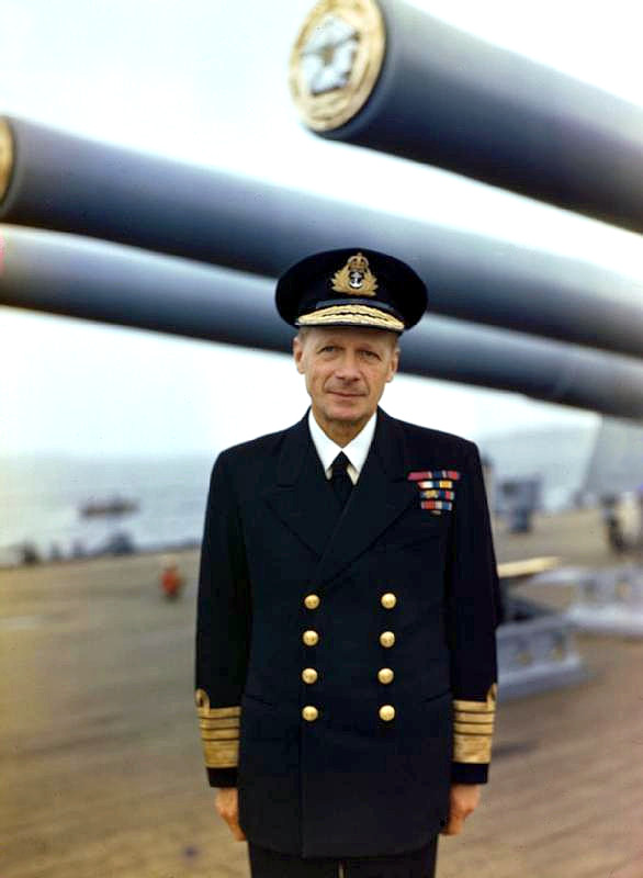 The Royal Navy during the Second World War- Personalities Half length portrait of Admiral Sir Henry Ruthven Moore KCB, CVO, DSO, Commander in Chief Home Fleet, under the guns of his flagship HMS DUKE OF YORK at Scapa Flow.